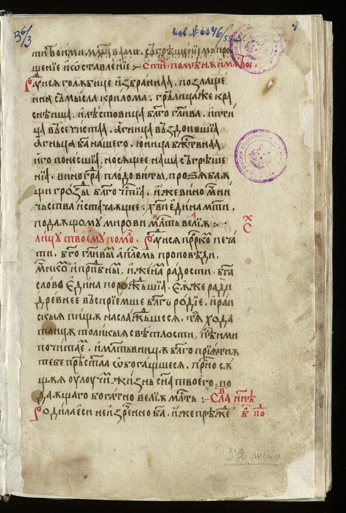 Octoechos in the Middle-Bulgarian language. Transcript of the Greek original from the 14th century by the monk Evgenii, Bulgarian editing - Tarnovo Literary School.